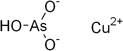 chemical structure of Scheele's Green